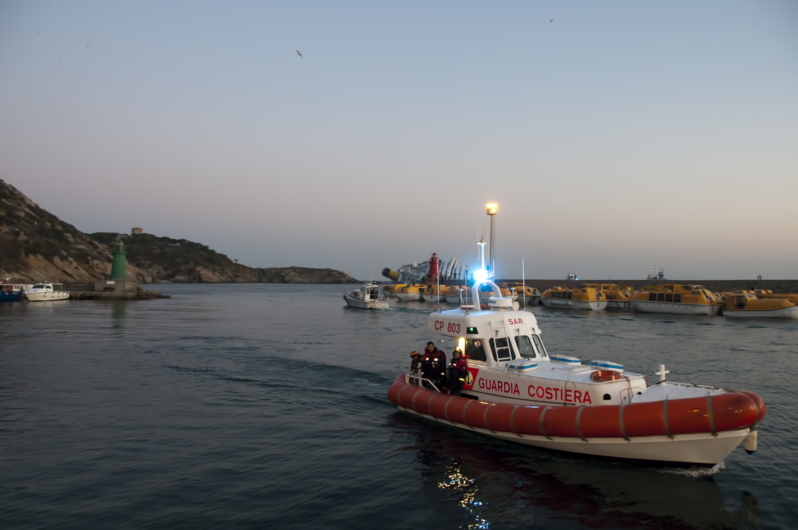 Collision of the Costa Concordia - The Italian Coast Guard stationed at the scene.